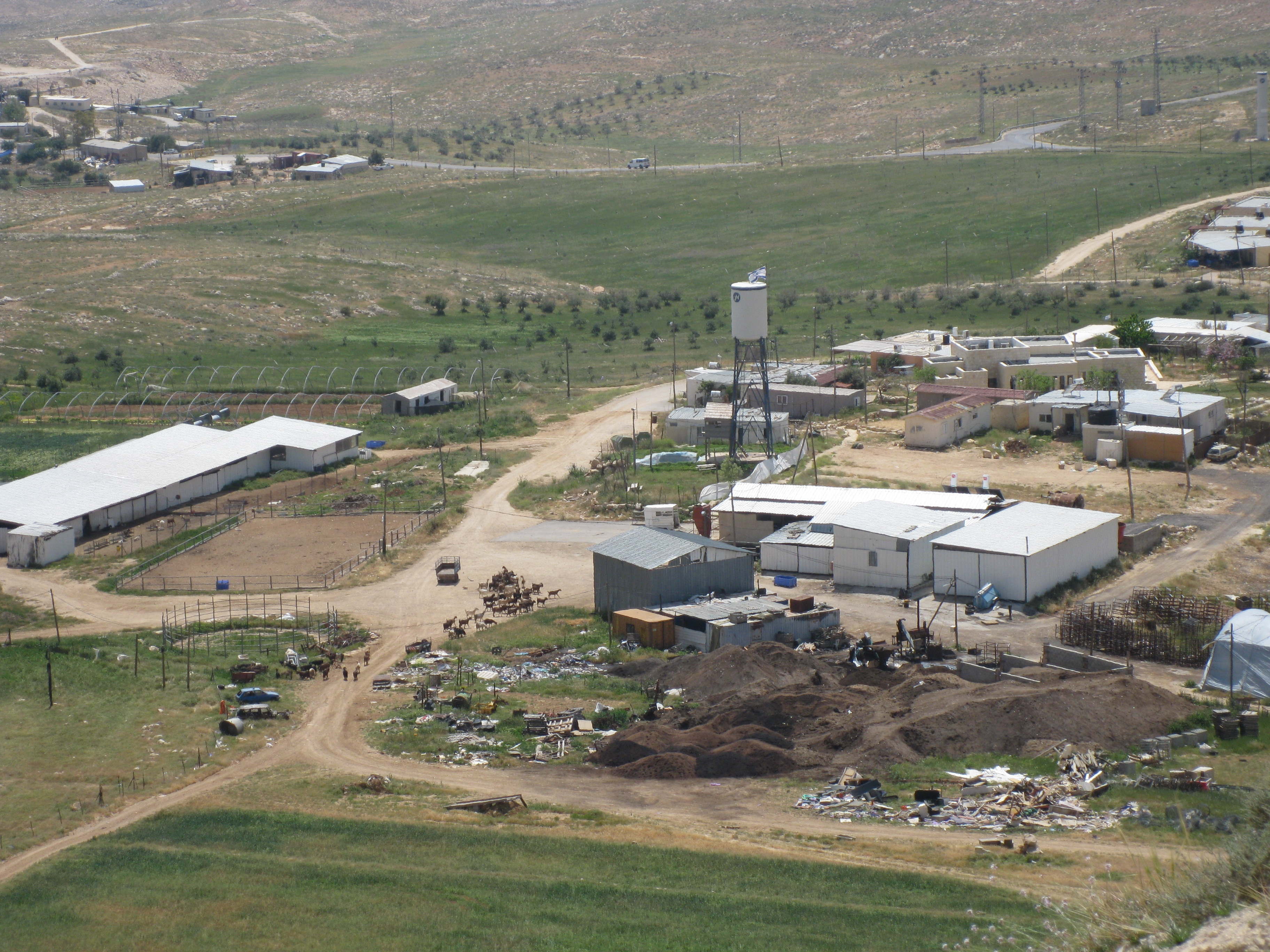 Views from Herodion (Herodyon, Herodium) מבט מהרודיון